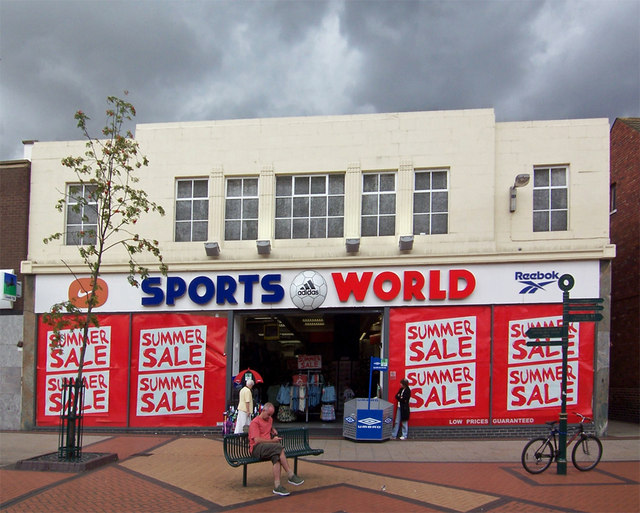 Sports World, High Street, Scunthorpe. A colourful shop front brightens a dull day.